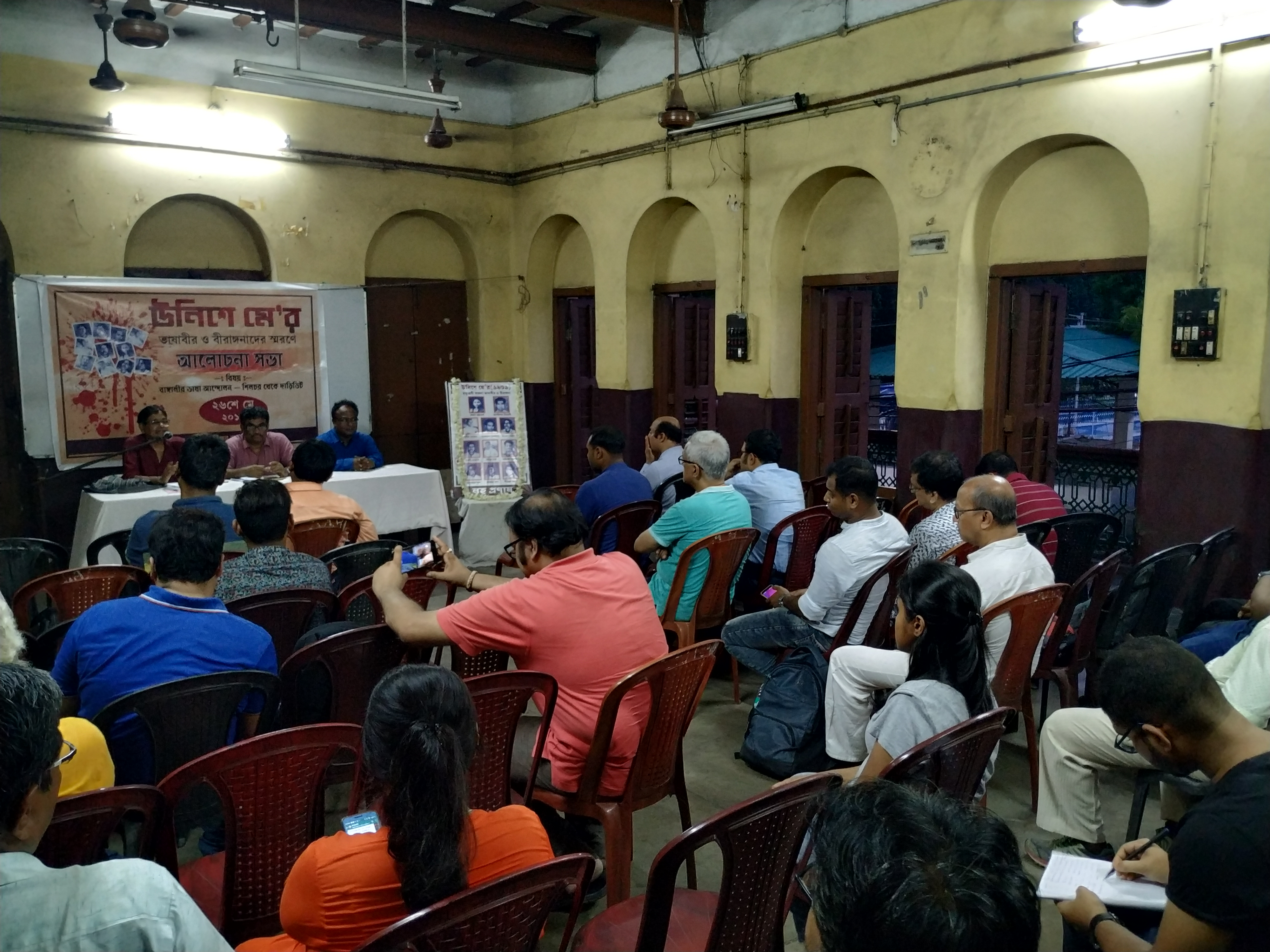 Dr. Mohit Ray, Prof. Bimal Shankar Nanda and litterateur Debasish Laha at an event in Kolkata in commemoration of the Bengali language movement at Barak Valley in 1961.